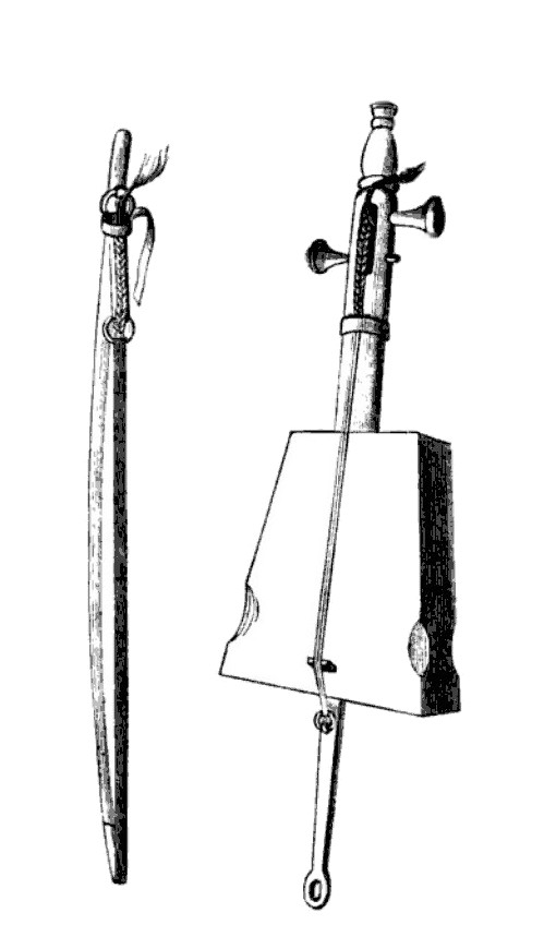 Rebab, quadrangular bowed spike lute